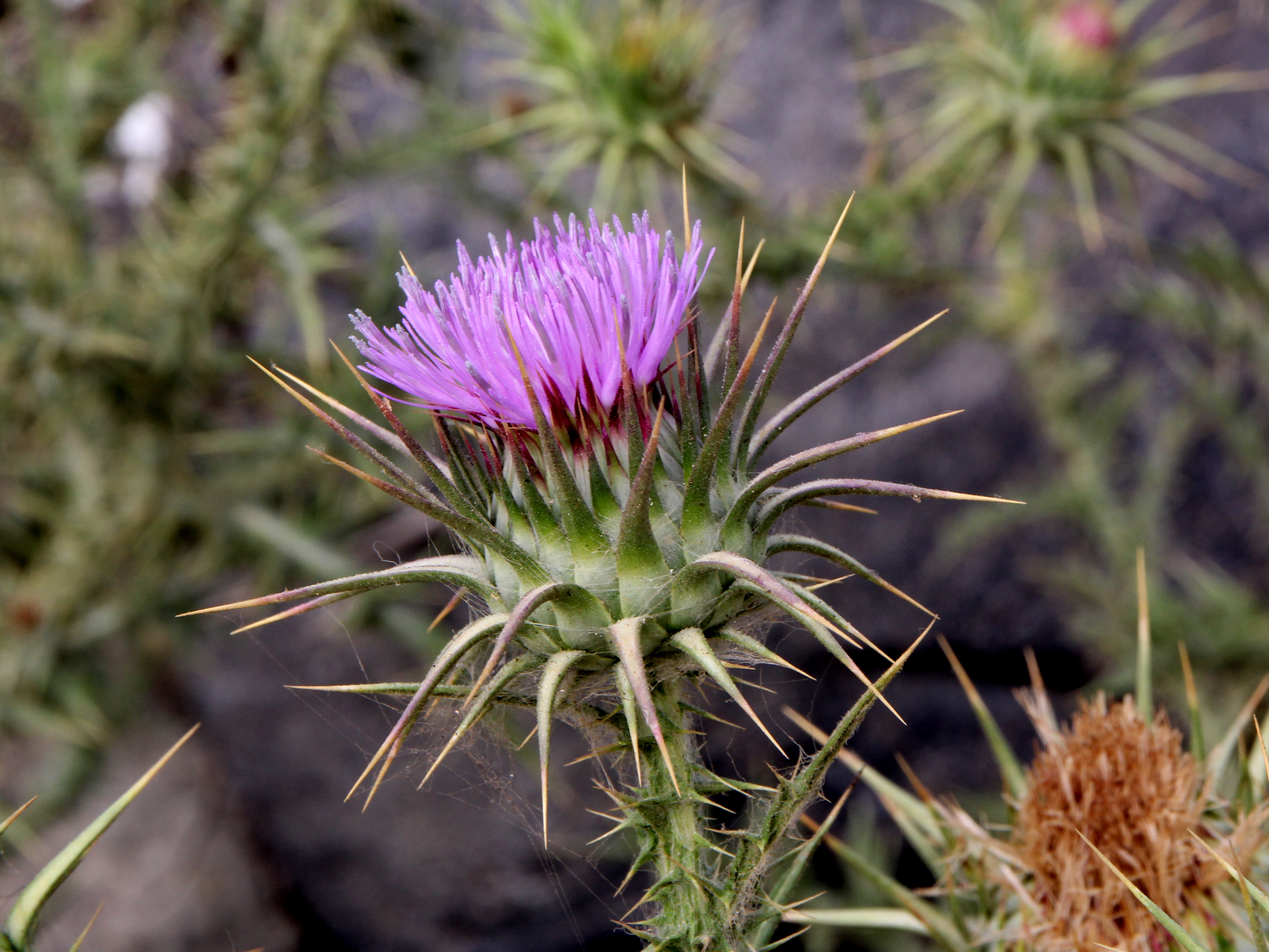 musk thistle